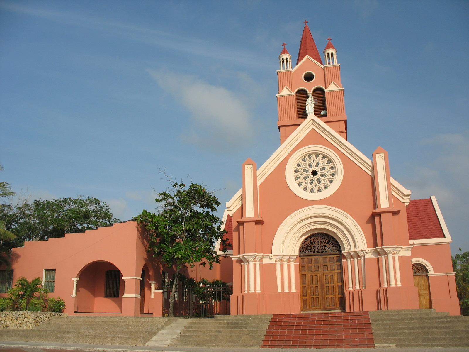 Puerto Colombia - Nuestra Señora del Carmen Church